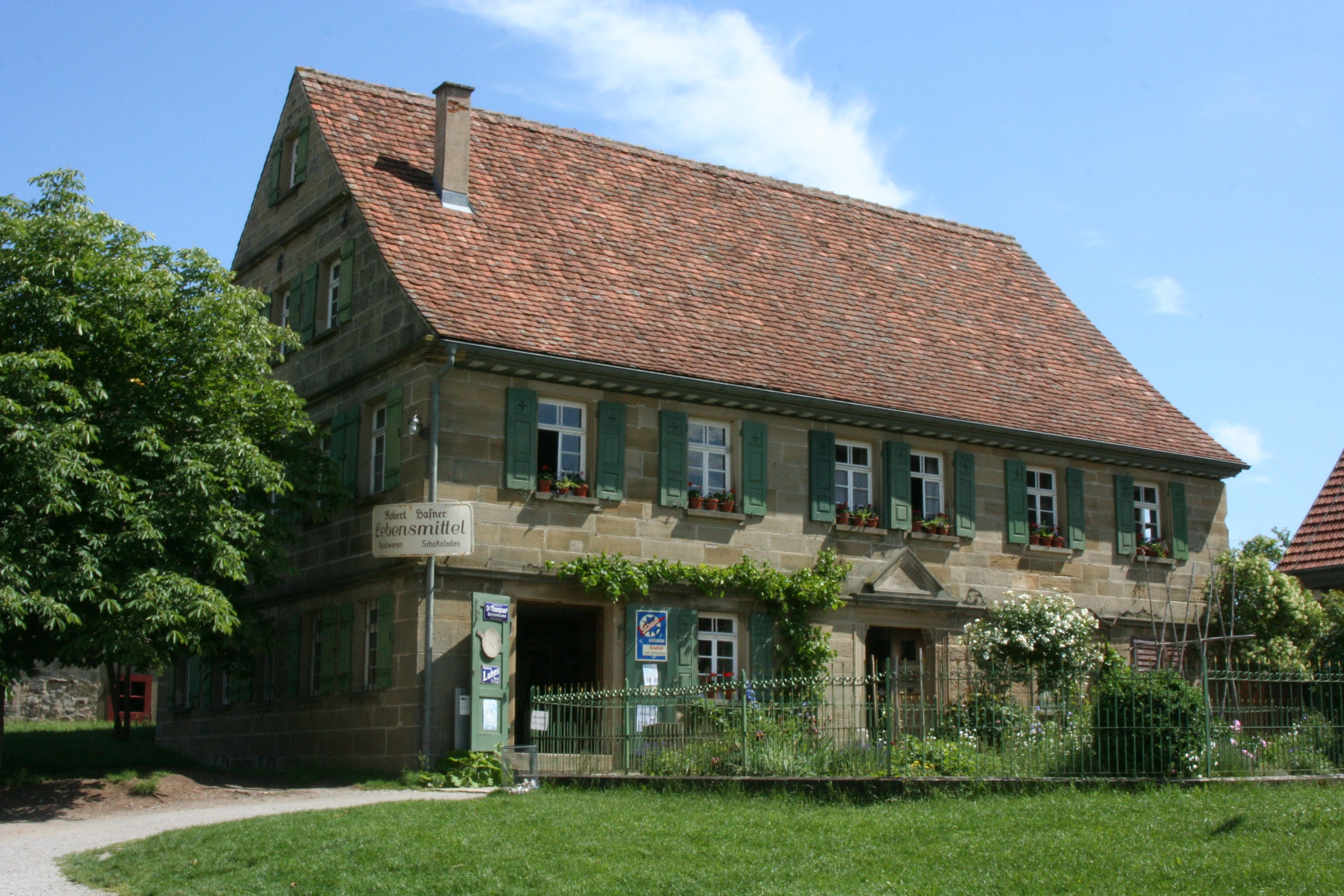 The Open Air Museum Wackershofen. House with barn from Schönenberg, municipality Untermünkheim, with the museum's shop